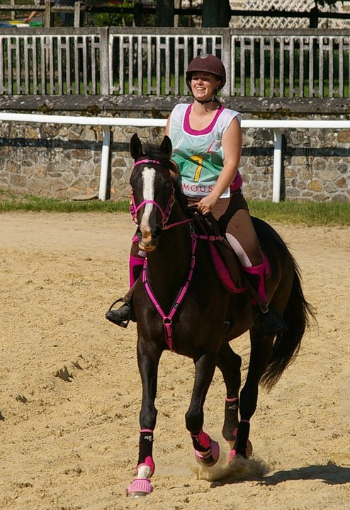 Soirée de Mels, anglo-arabian mare, during an endurance race, France